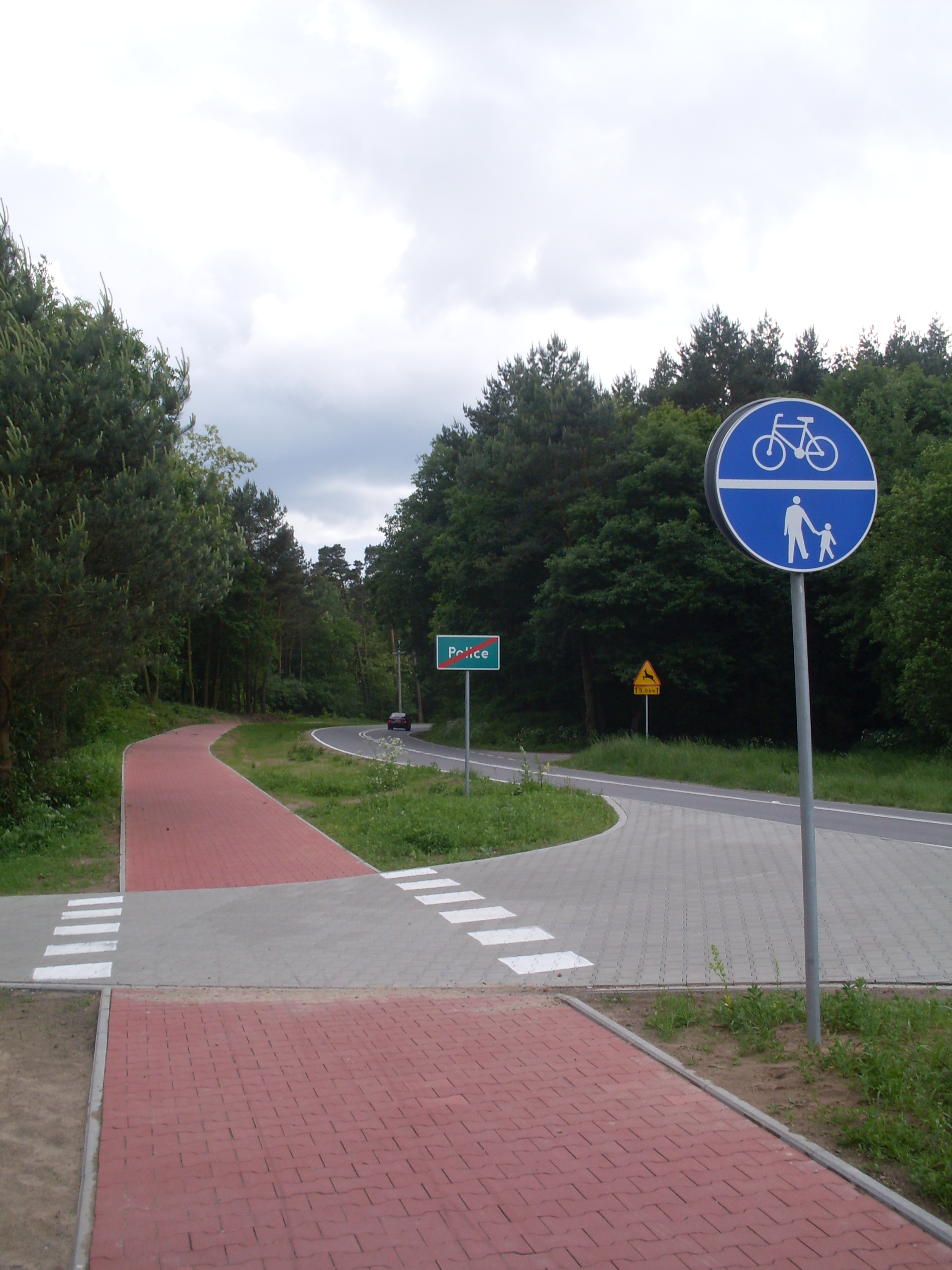 A bike path from Police to Siedlice, Poland